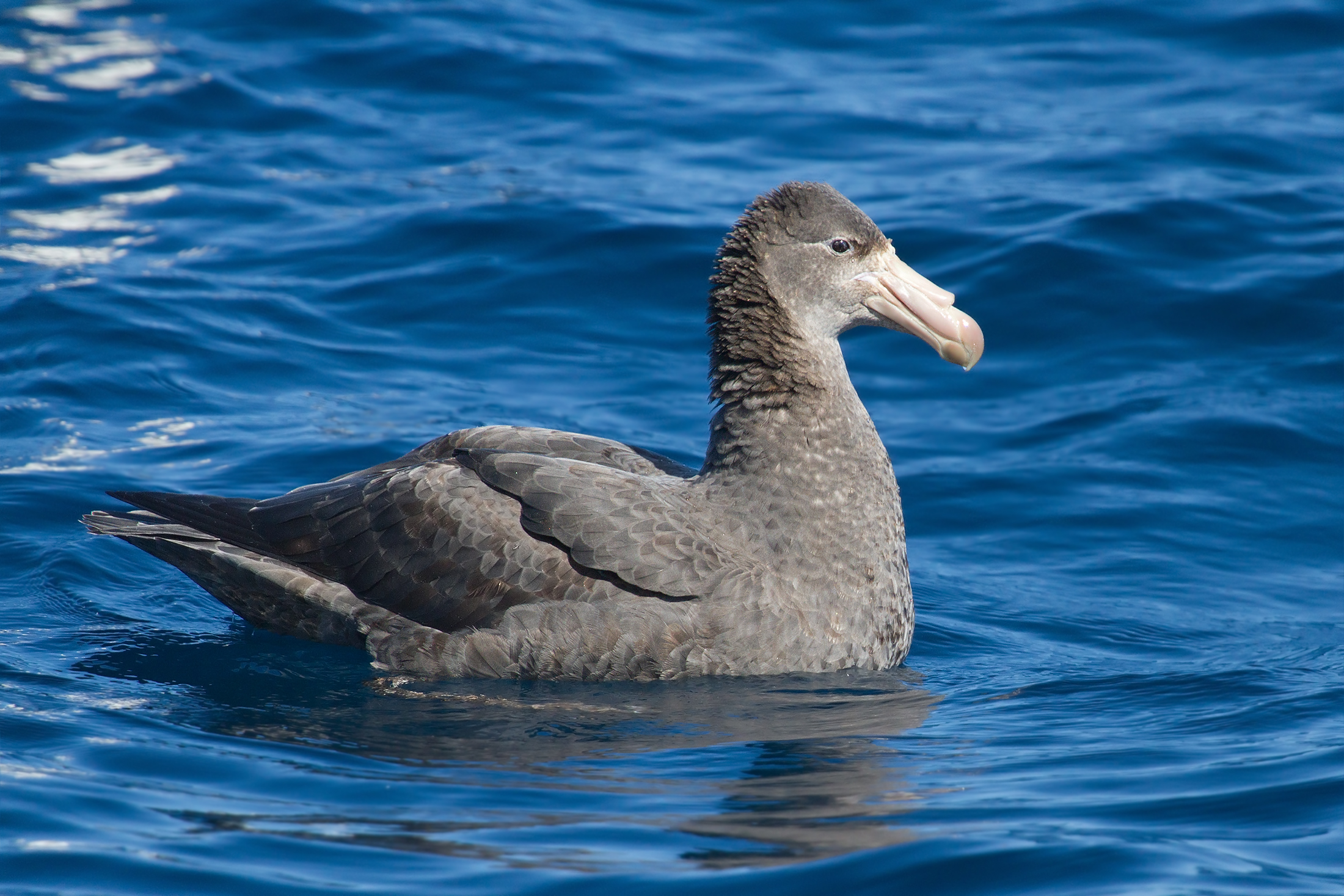 Imm. Northern Giant Petrel (Macronectes halli) in flight, East of the Tasman Peninsula, Tasmania, Australia